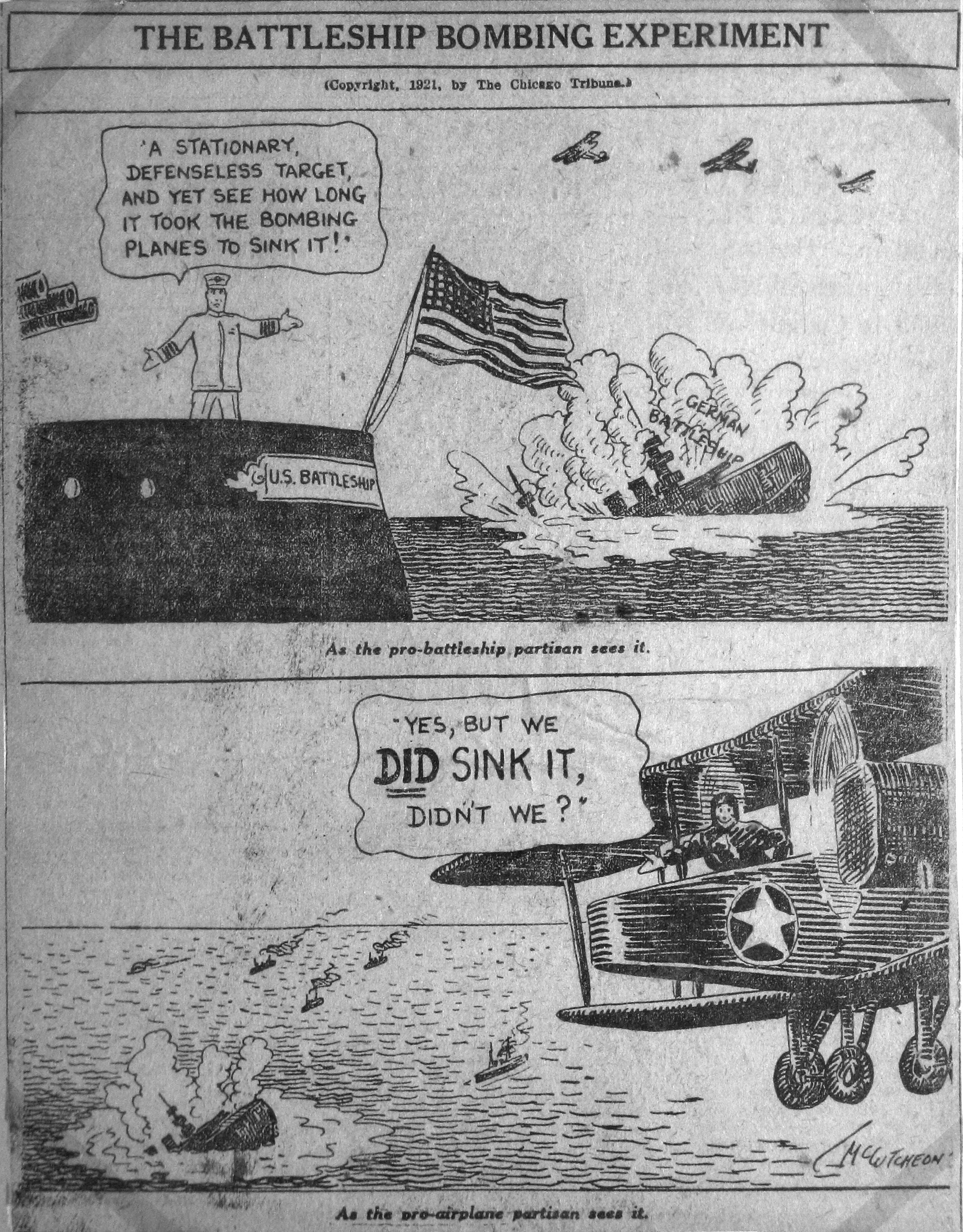 Photo of a (July?) 1921 newspaper clipping of the Chicago Tribune - photograph taken at the National Air and Space Museum